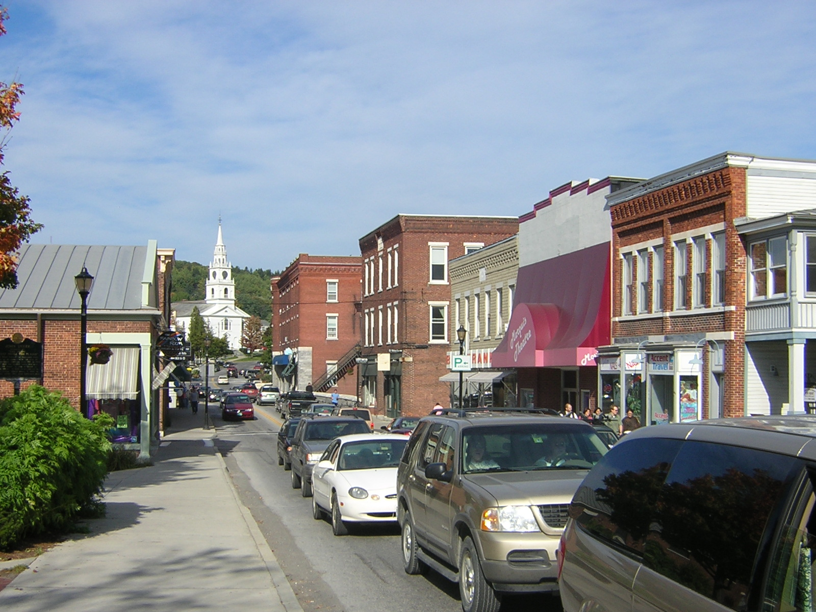 Downtown Middlebury, Vermont, USA